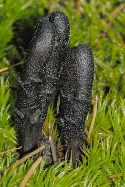 Elaphocordyceps ophioglossoides from Commanster, Belgian High Ardennes. The determination of the species shown in this picture has been verified.